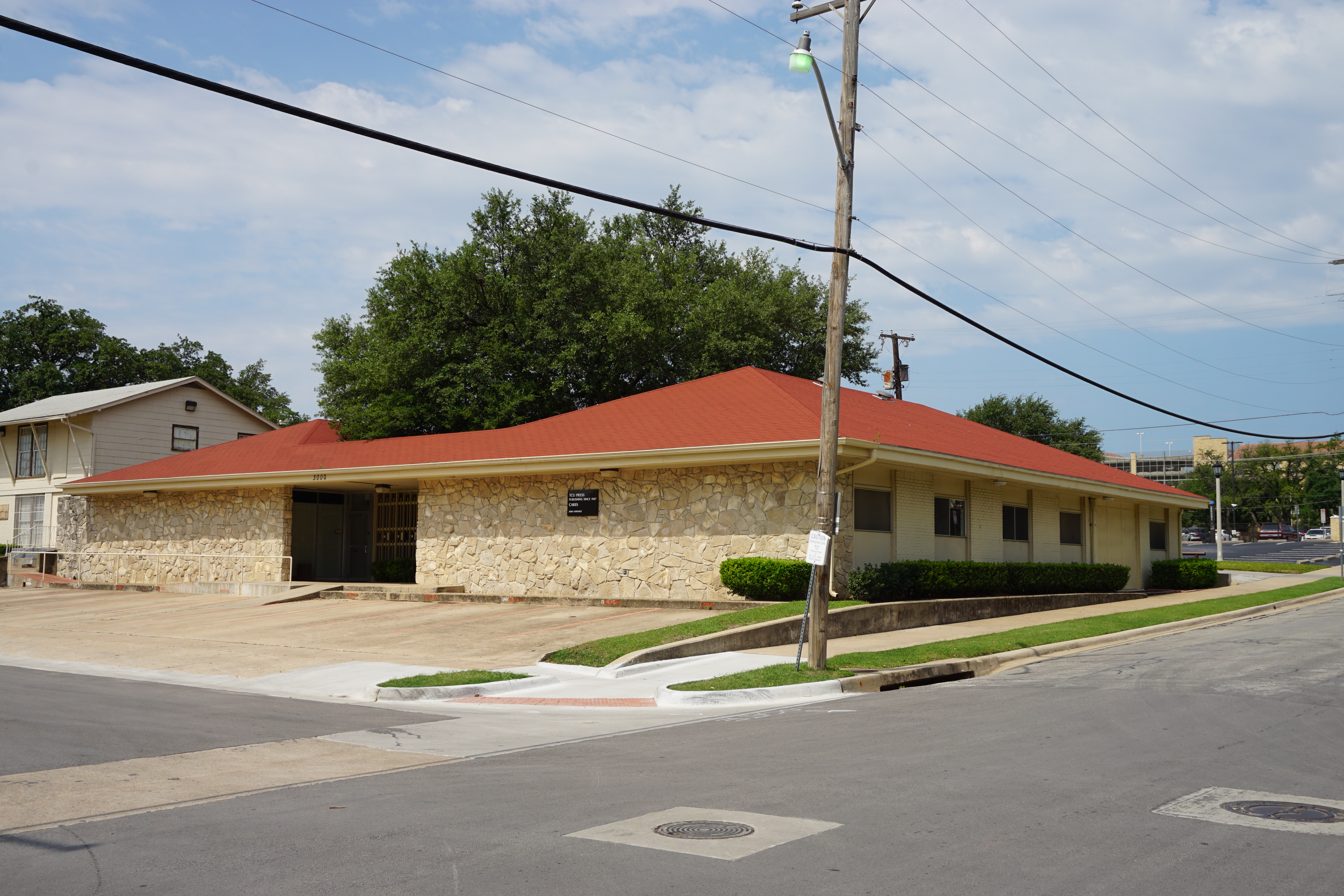 The TCU Press building on the campus of Texas Christian University in Fort Worth, Texas (United States).